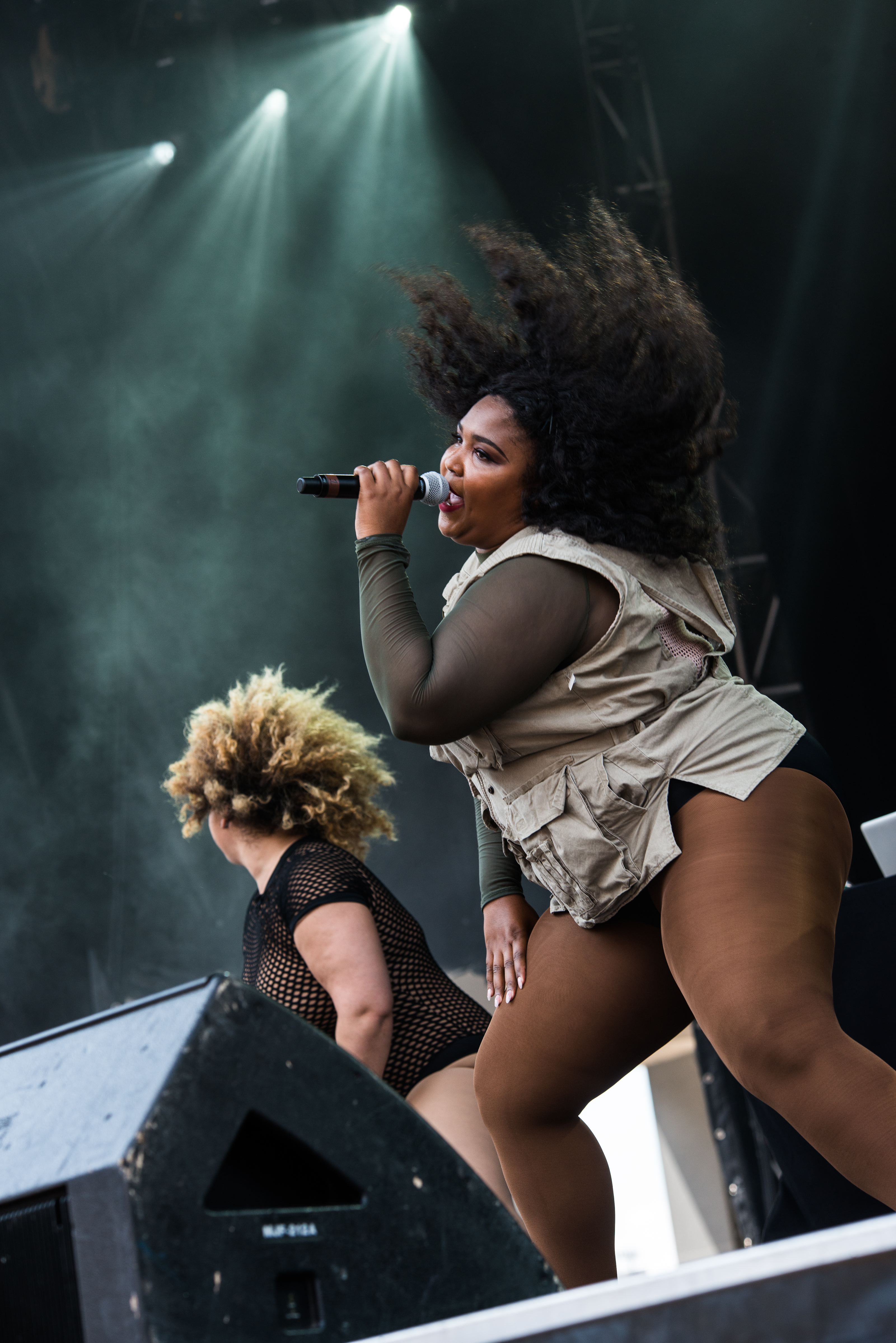 Boston Calling Day Two: Robyn, Odeza, Miike Snow, City and Colour, Courtney Barnett, Børns, The Vaccines, Battles, Lizzo, Palehound. Photos © 2016 by Andy Moran.